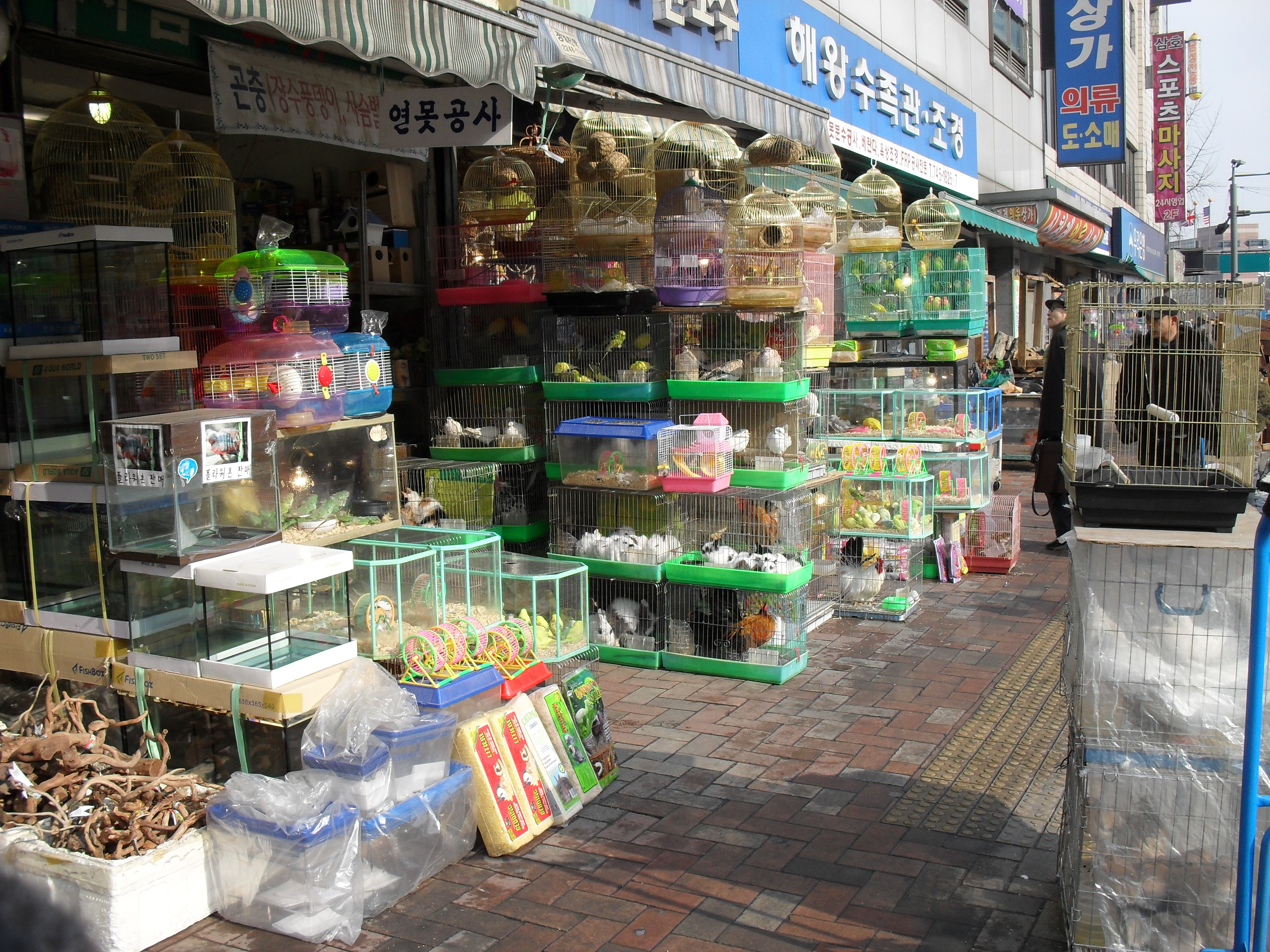 A photo of Dongdaemun market’s pet shops, in Seoul, South Korea.